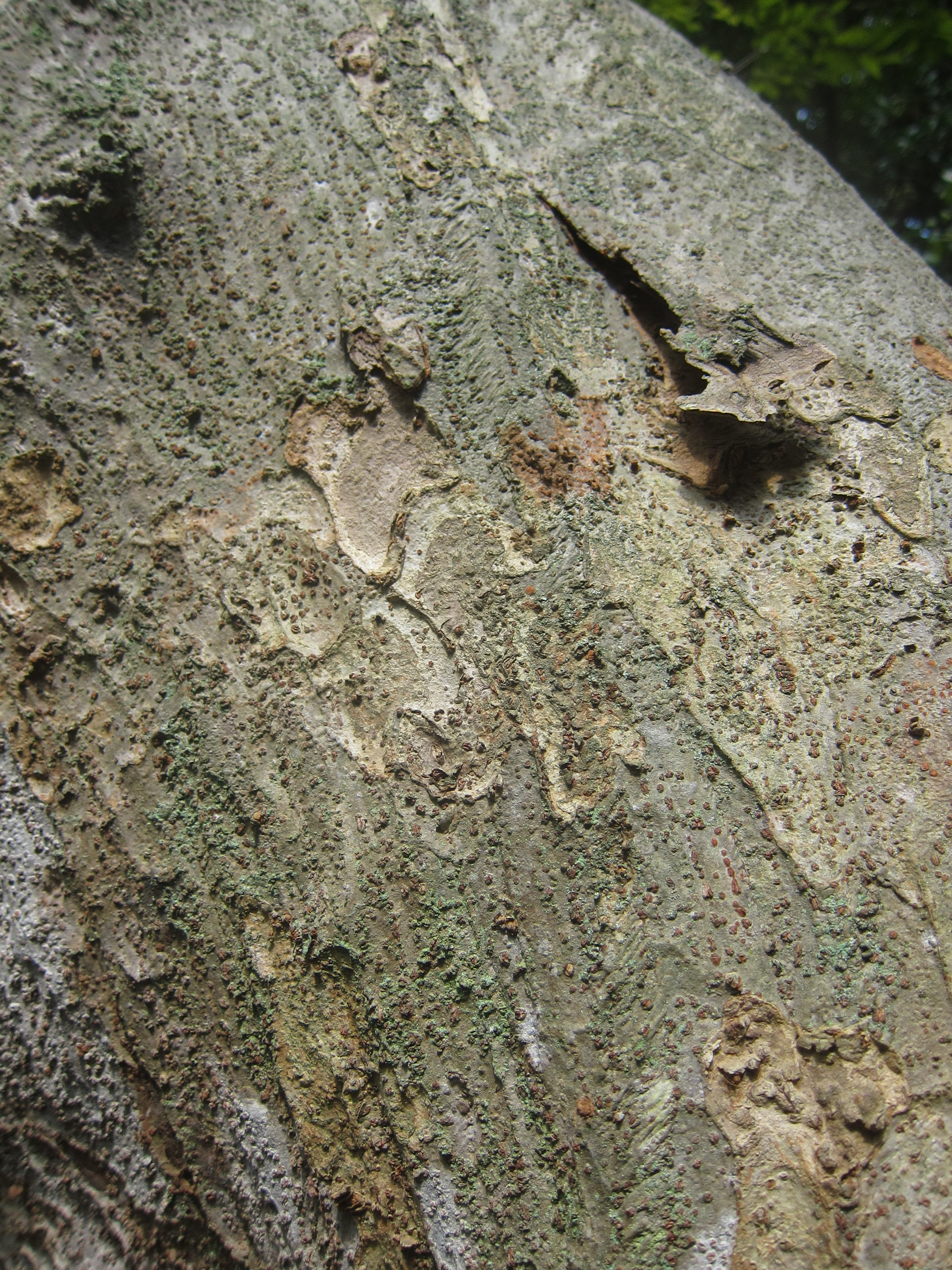 Bark of mature Zelkova serrata in Enoshima